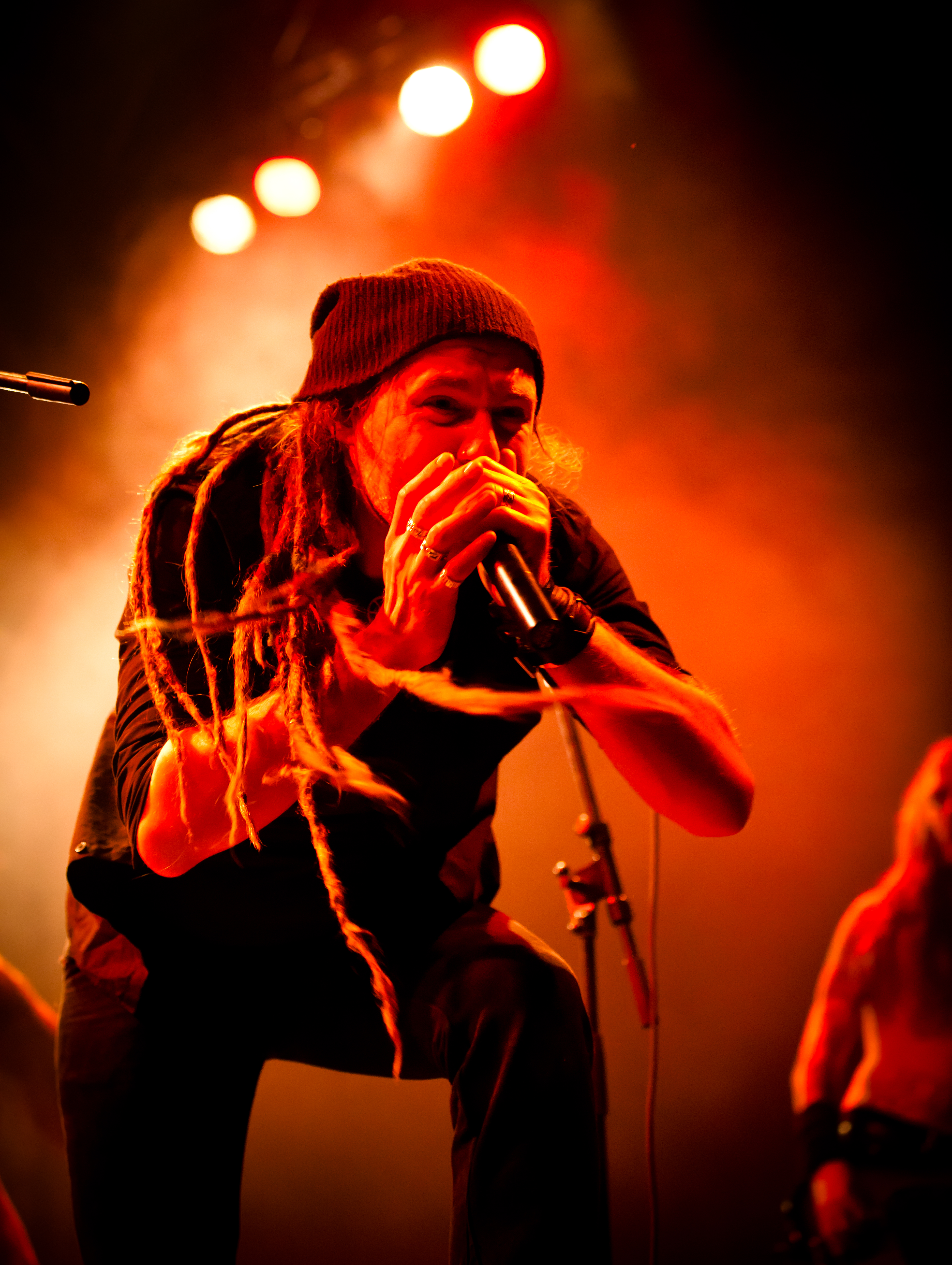 Chrigel Glanzmann of Eluveitie live at the Wave Gotik Treffen 2011